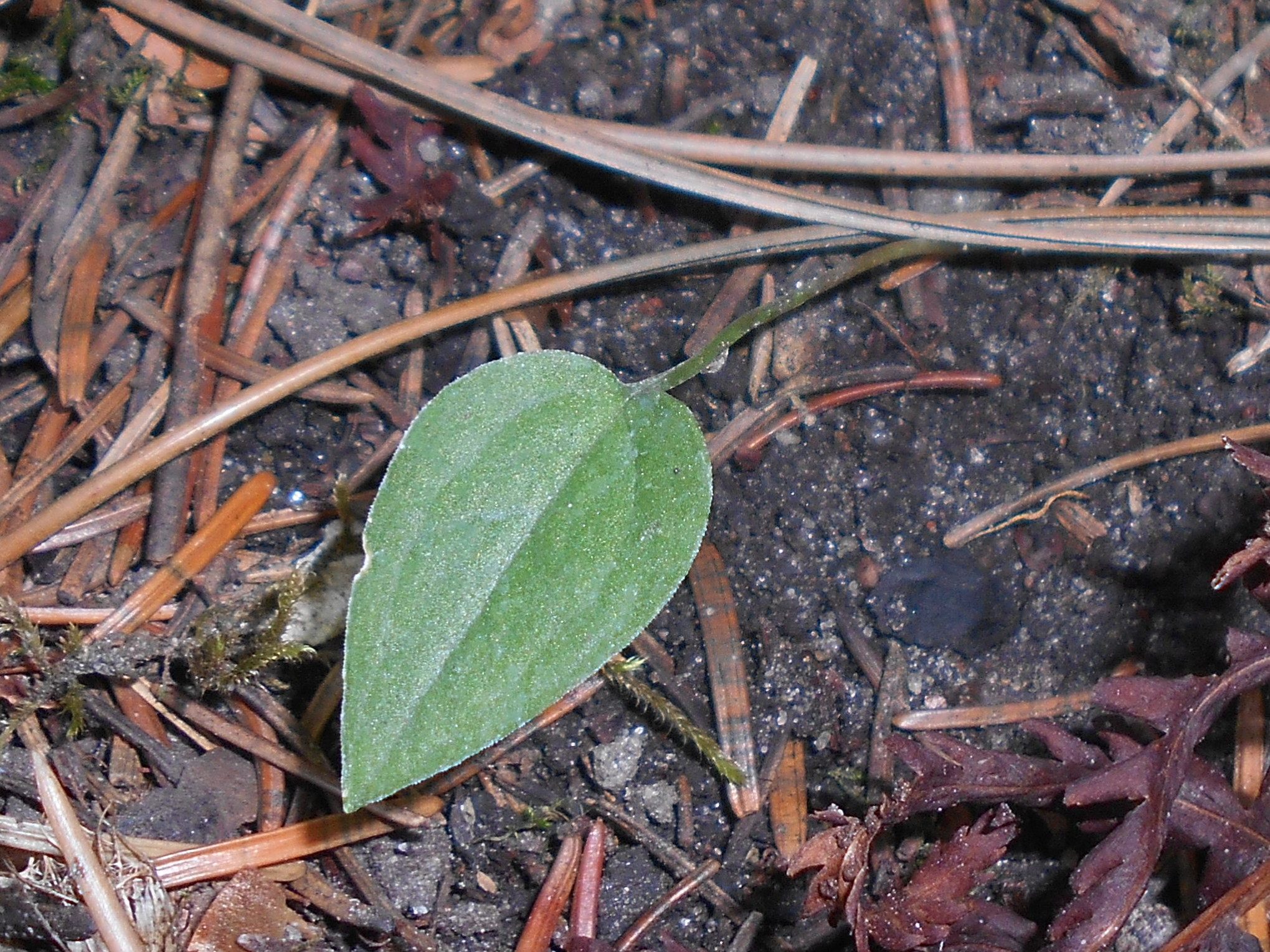 Paris quadrifolia seedling, Botanical Garden in Poznań, Poland.